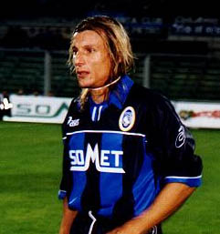 Claudio Caniggia during his tenure on Italian club Atalanta.